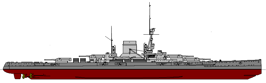 Line drawing of the German battlecruiser Yorck replacement, here in „Color Scheme No. 9”